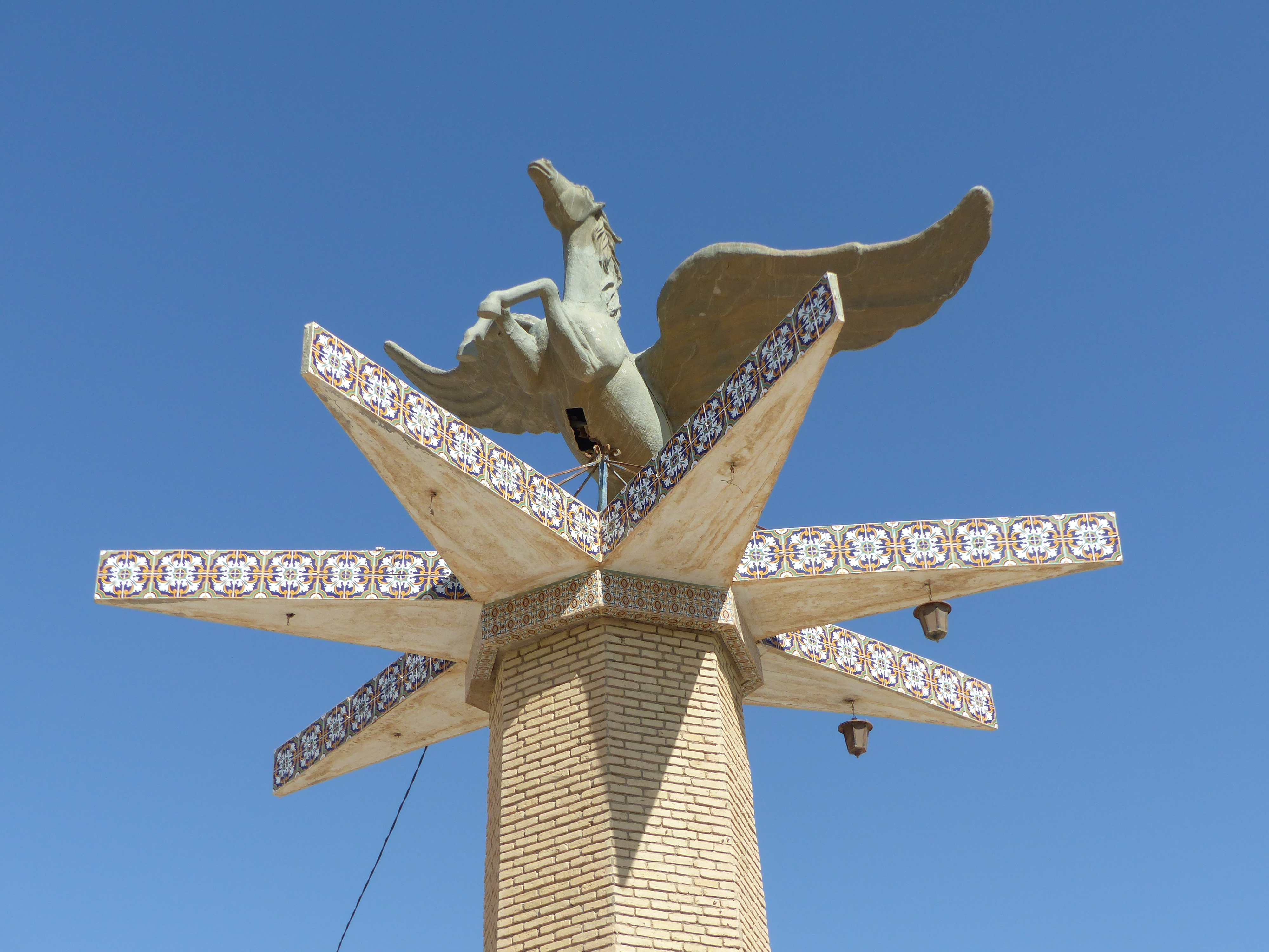 Winged horse statue, Tozeur, Tunisia